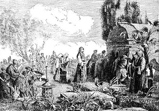 Pilgrimage at Isaac bar Shehet's tomb at Algiers.